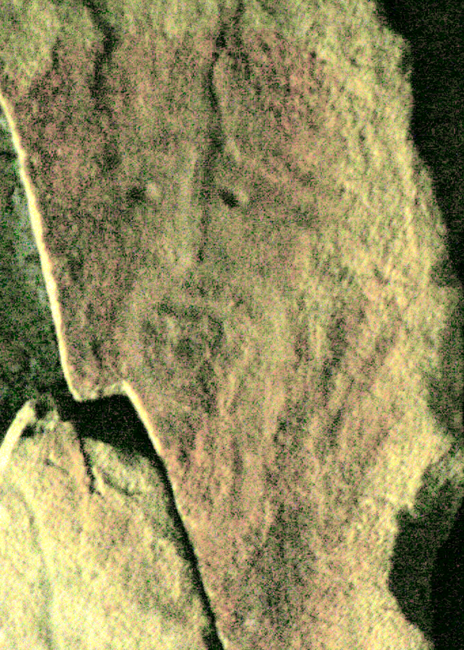 Photograph of a carving on the ceiling of Le Dehus passage grave half a mile from Bordeaux Harbour in the north of the Channel Island of Guernsey. Although seemingly a crude work when viewed in artificial light from a nearby electric bulb, when taken under natural light conditions from the open door of the tomb with a relatively long exposure, as this photograph was, a more stunning image emerges. One wonders if the human eye, having adjusted to the gloom, could discern this ghostly face looking down at it from the ceiling. Is it truly Neolithic? Finds from Le Dehus during excavation of this passage grave in the early Victorian period date from between 3500 and 2000 BC. The carving was discovered in 1916.